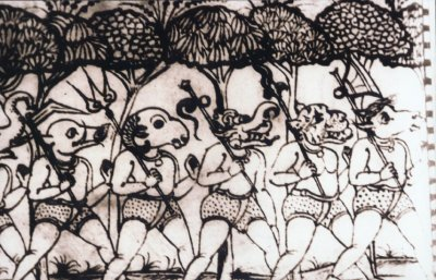 Illustration from the Sougandhika Parinaya, a prose romance by Mummadi Krishnaraja Wodeyar, the longest-reigning ruler of Mysore (1799 – 1868).